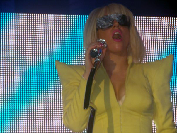 Lady Gaga performs during her The Fame Ball Tour "Just Dance" in Zurich at Maag Event Hall the 21 July 09.